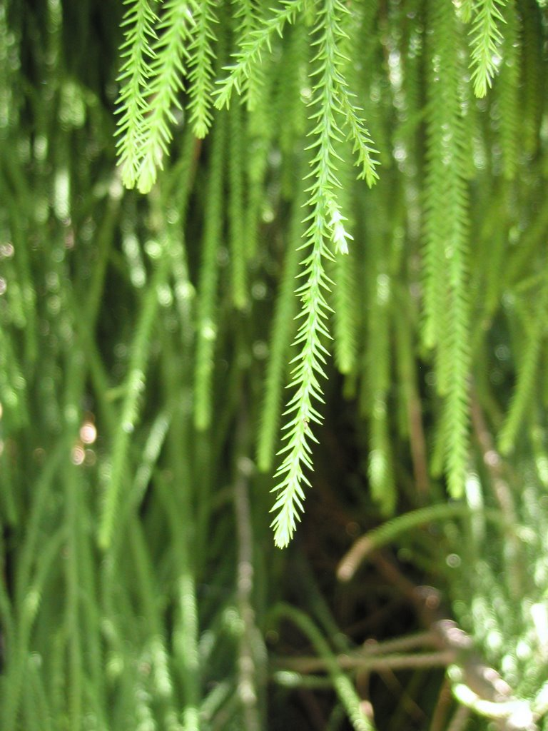 foliage of Rimu, Dacrydium cupressinum, New Zealand. I took this picture myself at the UC Berkeley Botanical Garden. More comments on the picture can be found at Dusky Shutterflies.